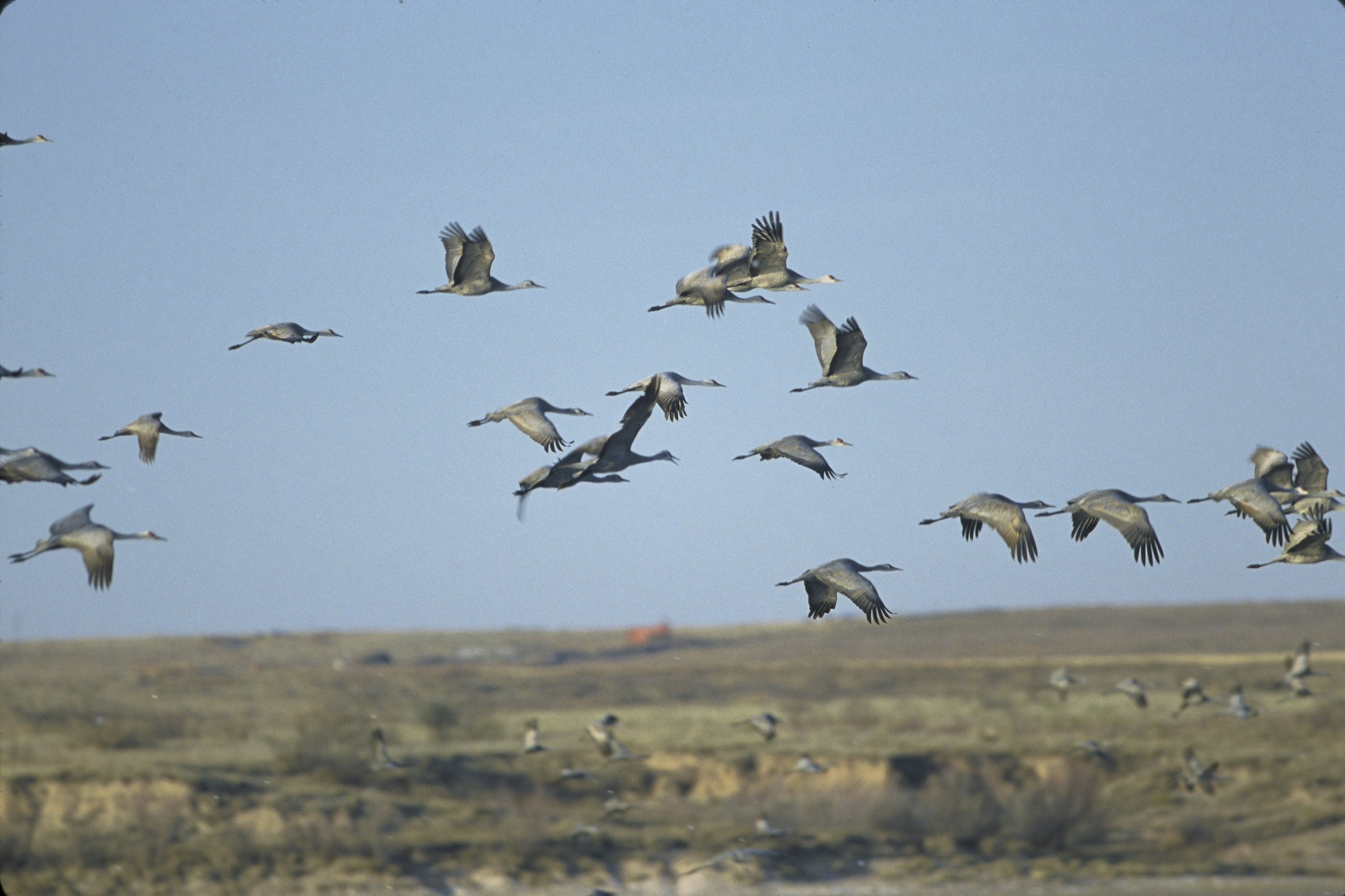 Sandhill Cranes in flight, Muleshoe National Wildlife Refuge, Bailey, County, Texas